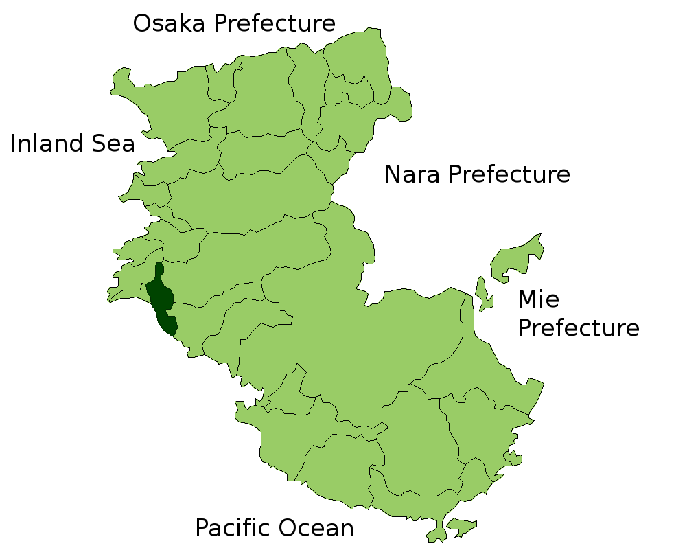 Map Gobo, en